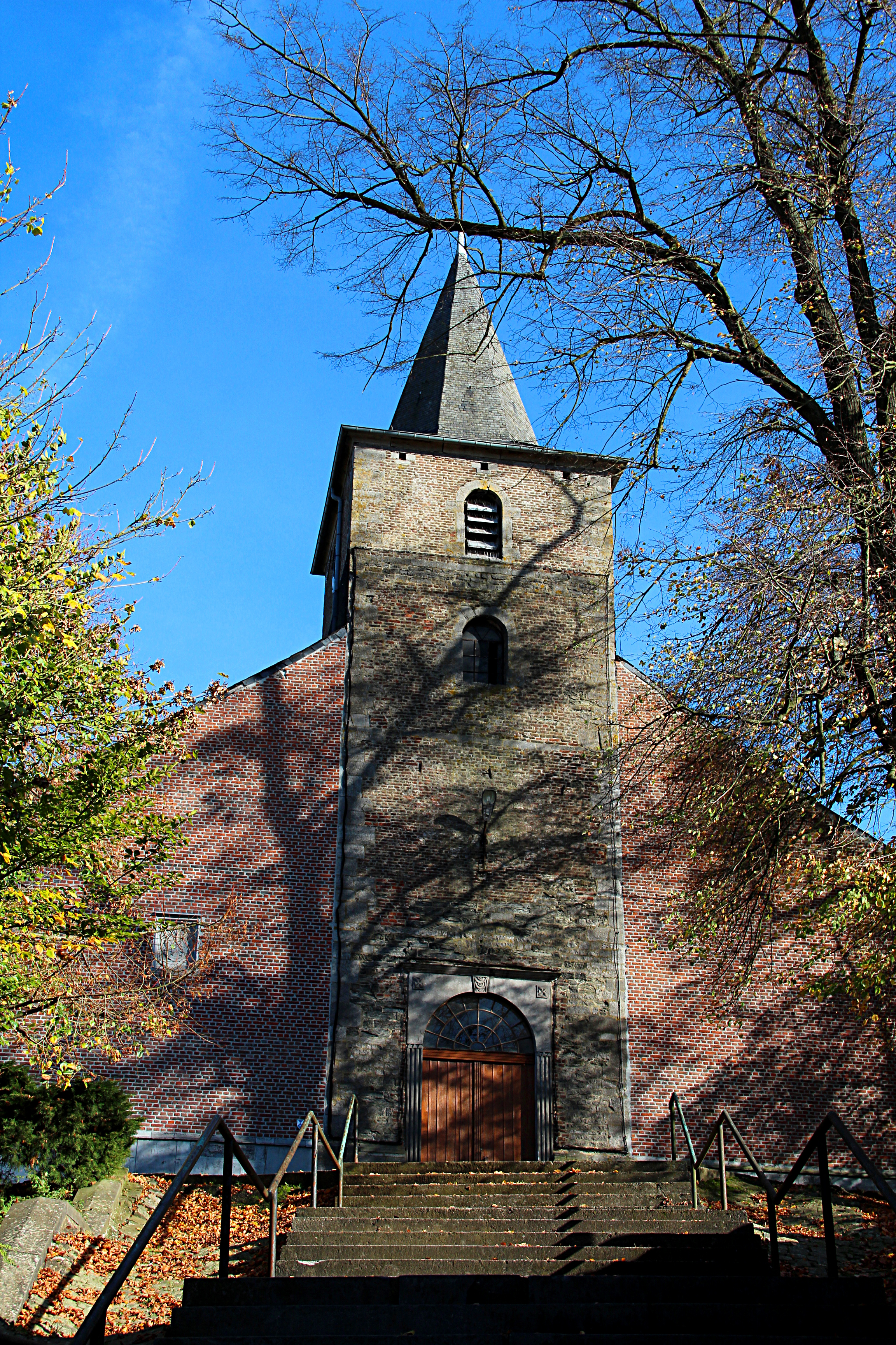 Sauvenière (Belgium), the Saint Fe (1717-1732).